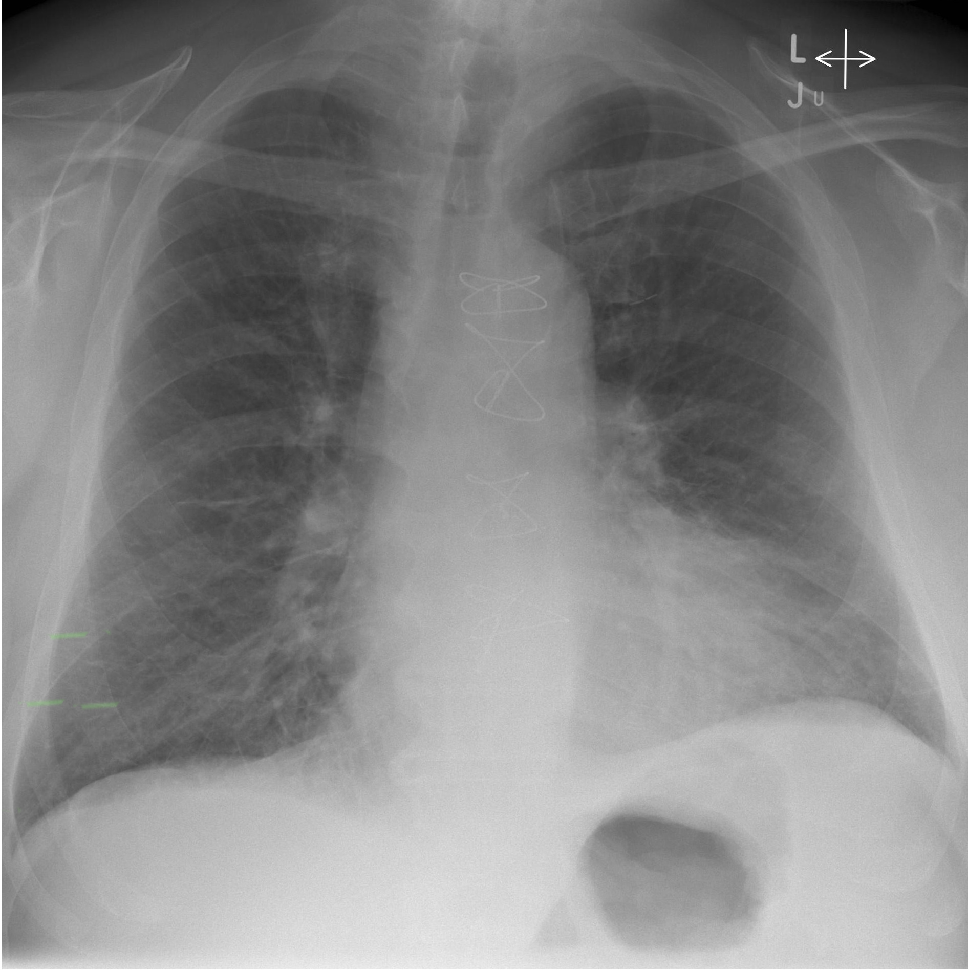 An attempt to mark the kerley-b-lines (at least some of them) on the original image, to make it more understandable by laypeople